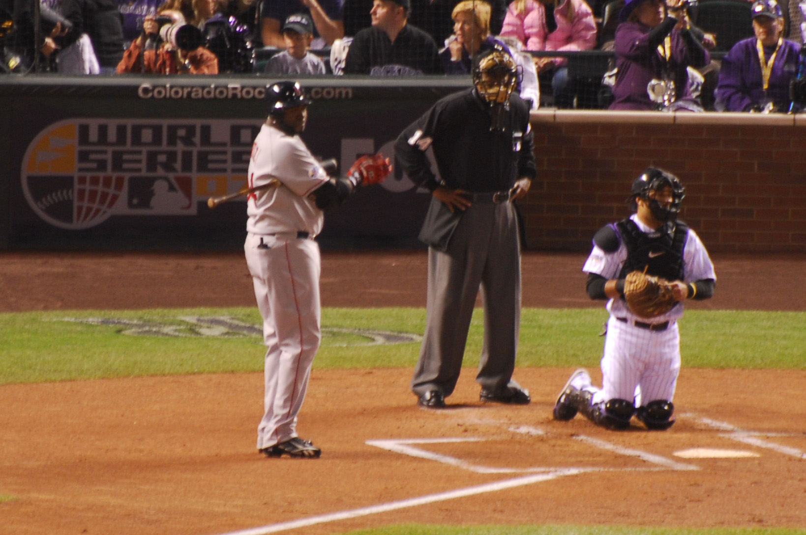 David Ortiz of the Boston Red Sox at the 2007 World Series.